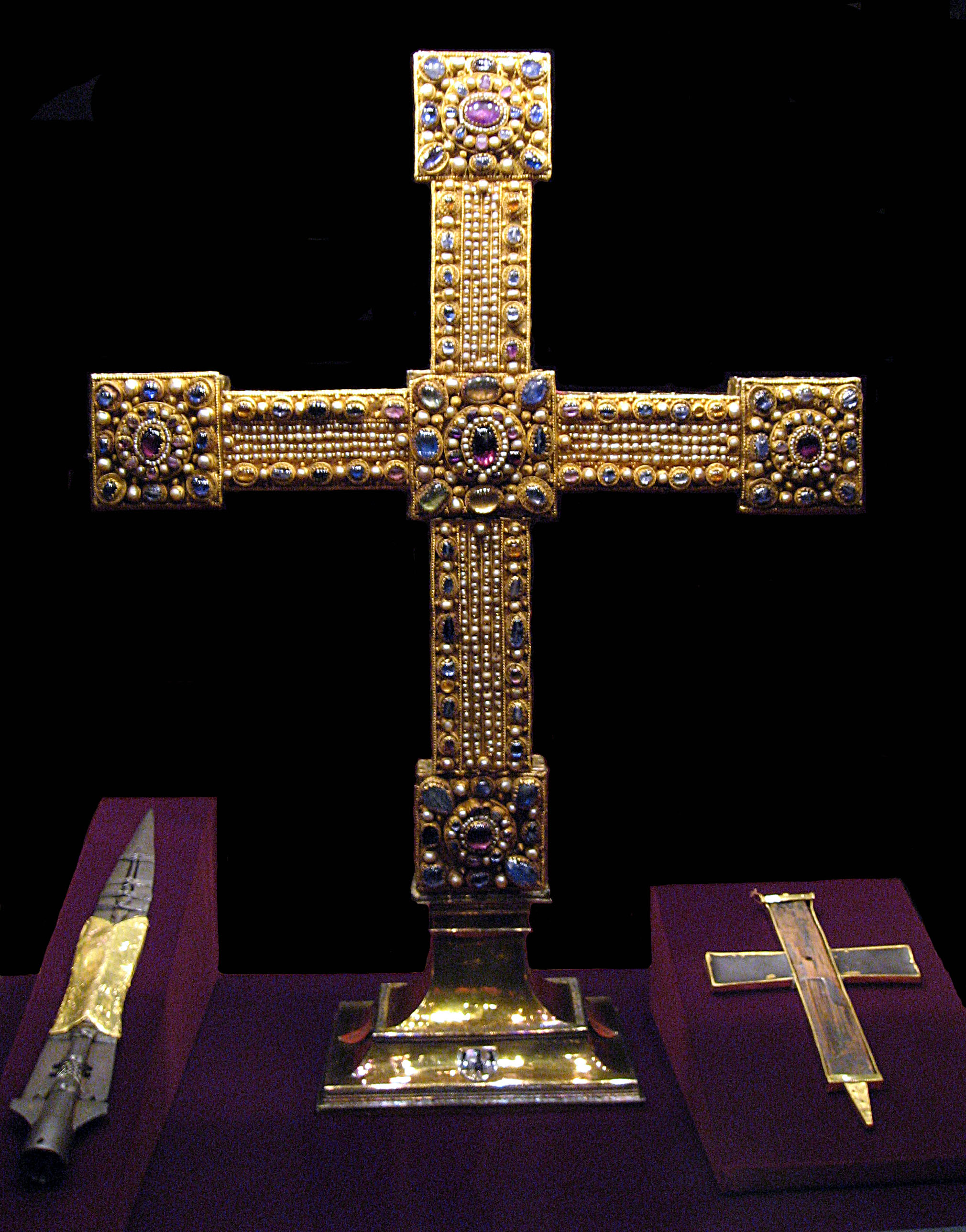 Imperial Cross Western Germany c. 1024/25 Oak base, recesses for relics, covered with red fabric and plated with gold foil Front: precious stones and pearls in raised mountings which could be lifted as plates Back and side walls: niello, iron pin H 77.5 cm, W 70.8 cm Base of the cross: Prague, 1352 Silver-gilt, enamel H 17.3 cm Overall height of the standing cross SK Inv. No. XIII 21